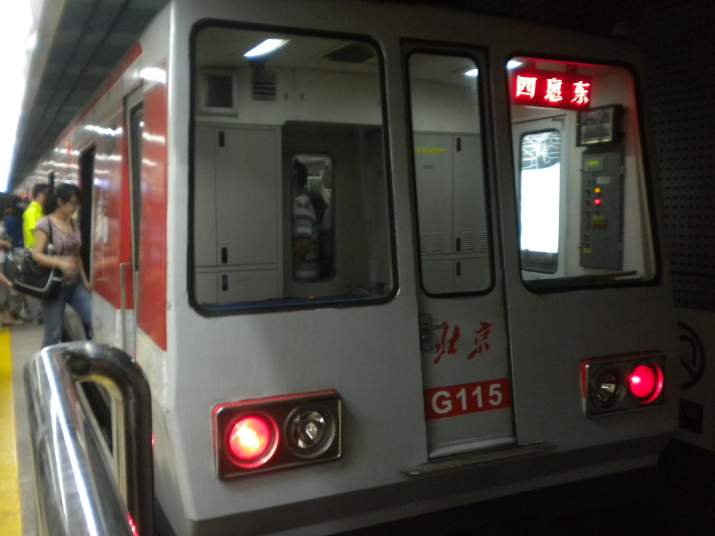 G115 was the first BD2 ever built, and the first converted one. This fellow didn't manage to escape from the alcoholic-advertisement!